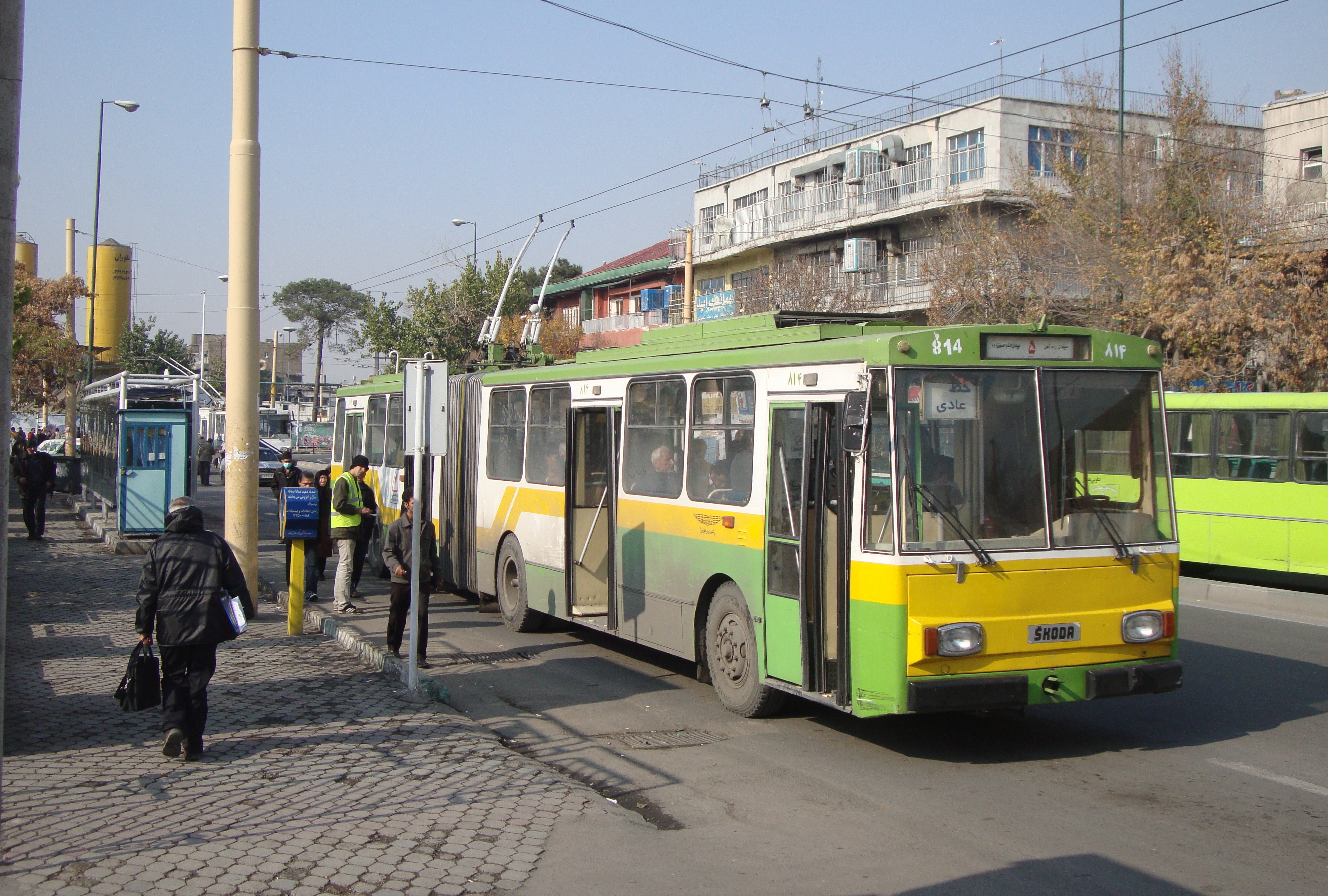 Trolleybus in Tehran, Rah Ahan sq